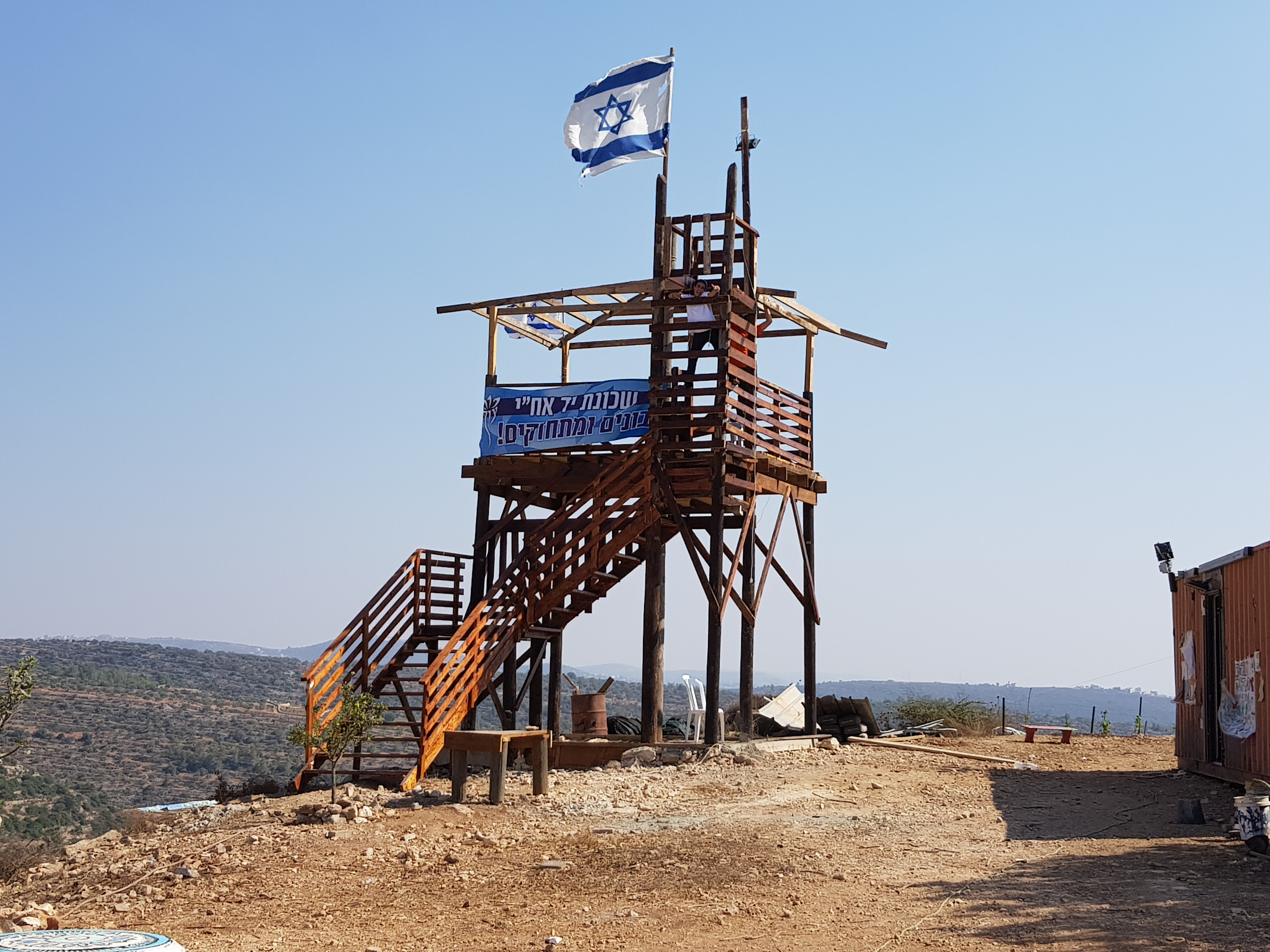 Establishment of the Neve Achi neighborhood